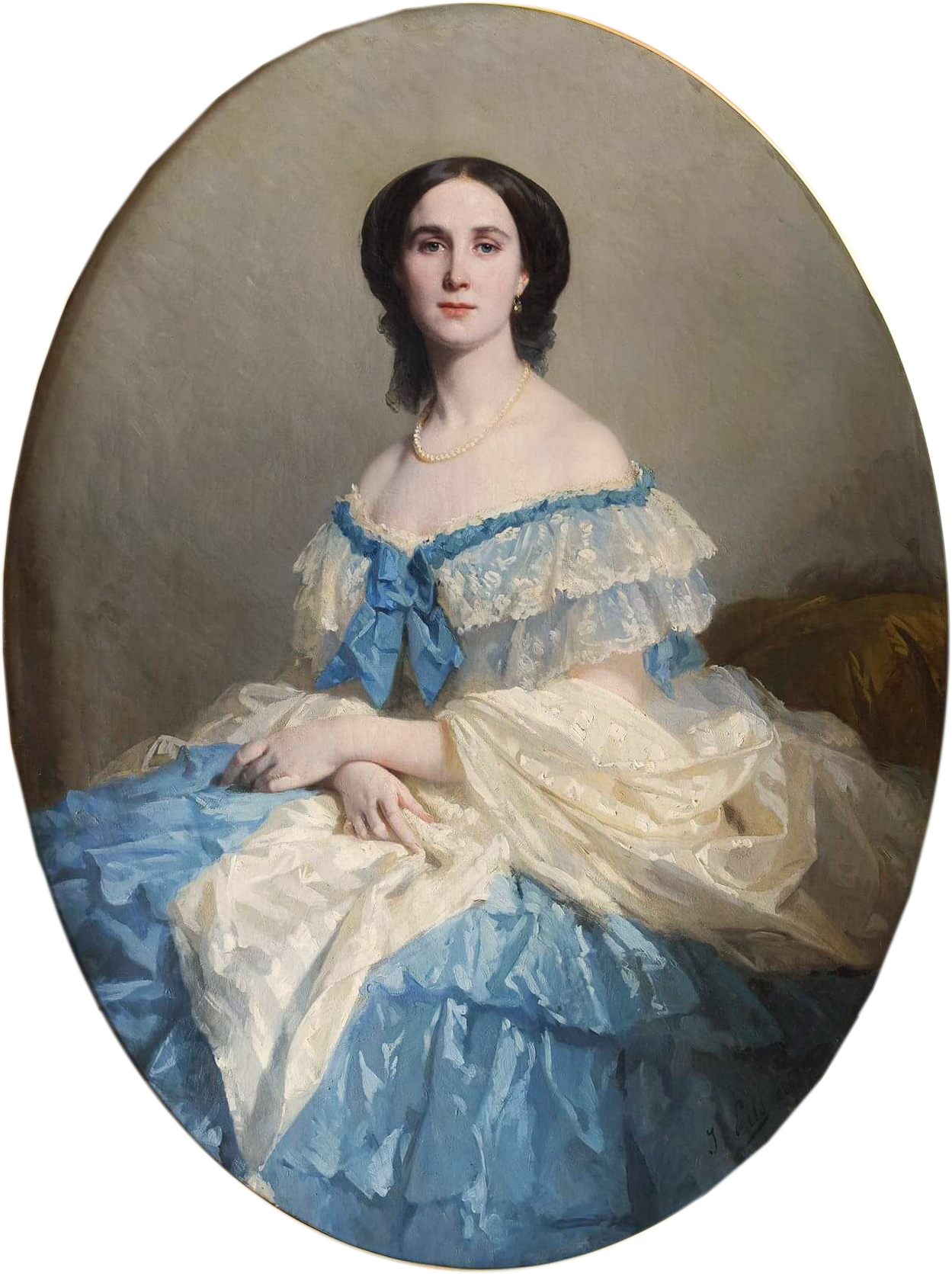 Empress Charlotte of Mexico